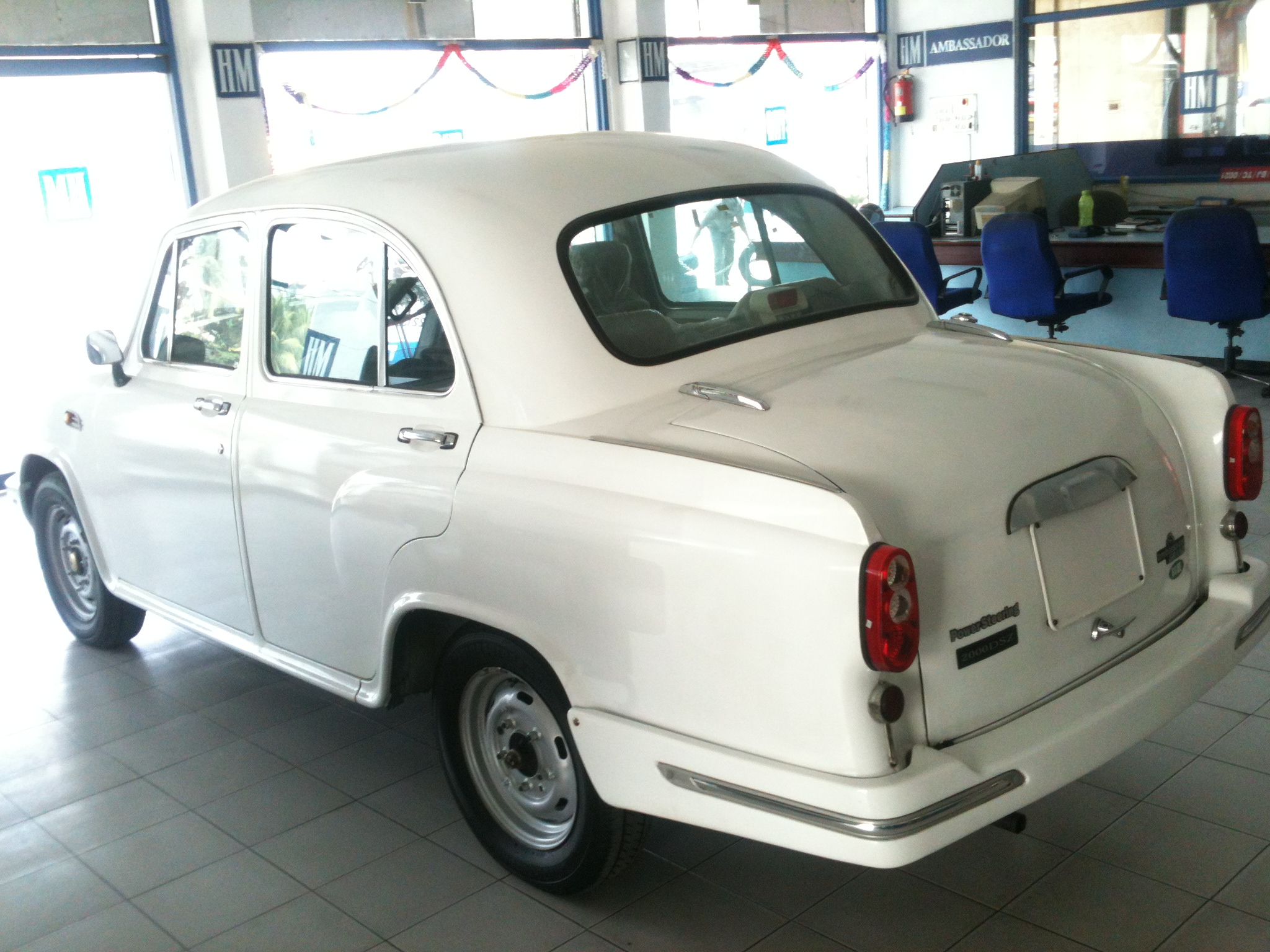 Rear View of HM Ambassador Grand, 2013 Model